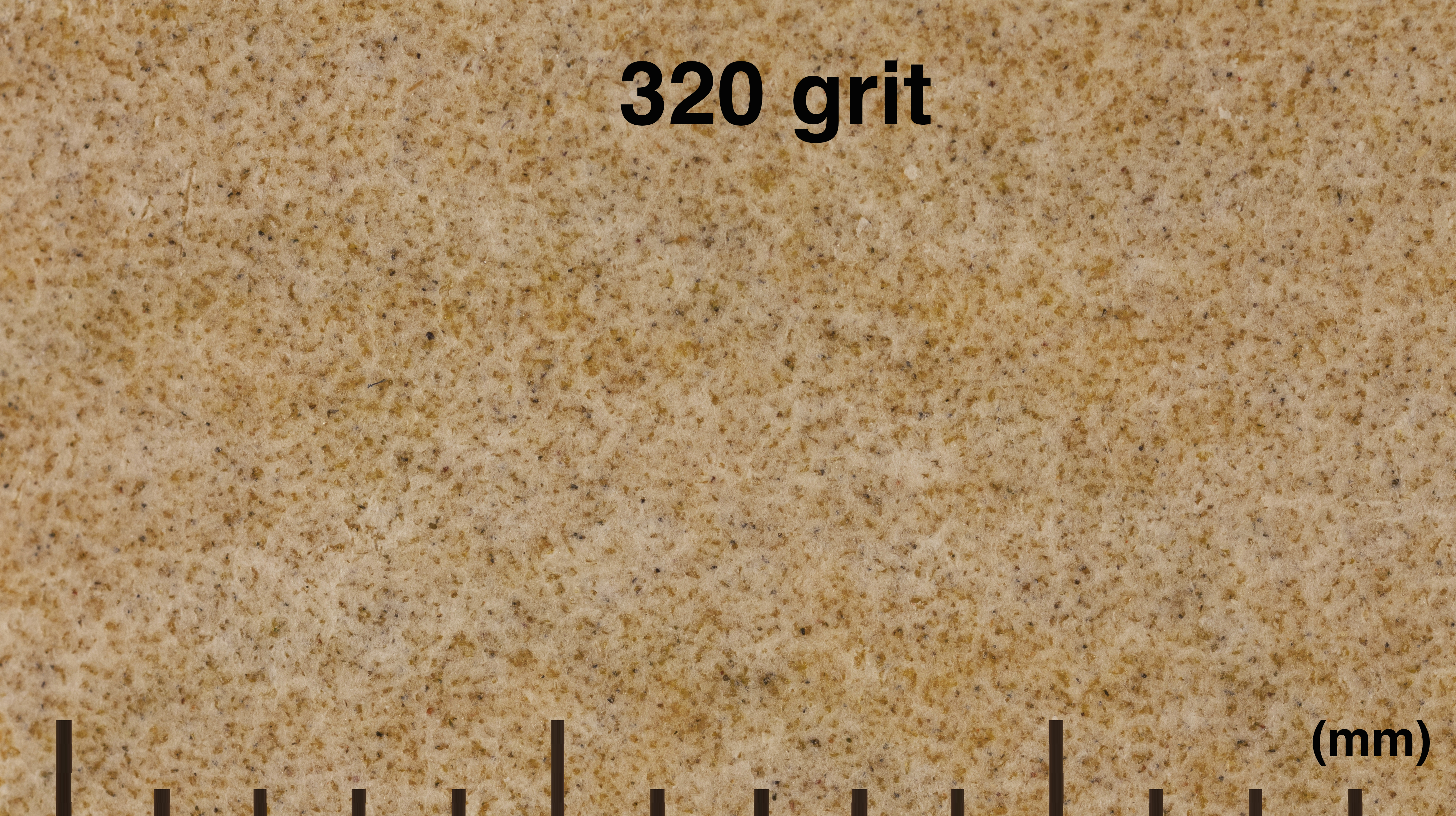 Macro photo of a 220 grit sandpaper made of aluminum oxide